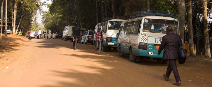 Entrée du Campus de MFETUM